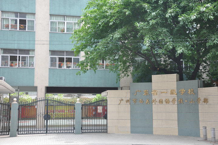 the main gate of XIGUAN FOREIGN LANGUAGE SCHOOL primary school